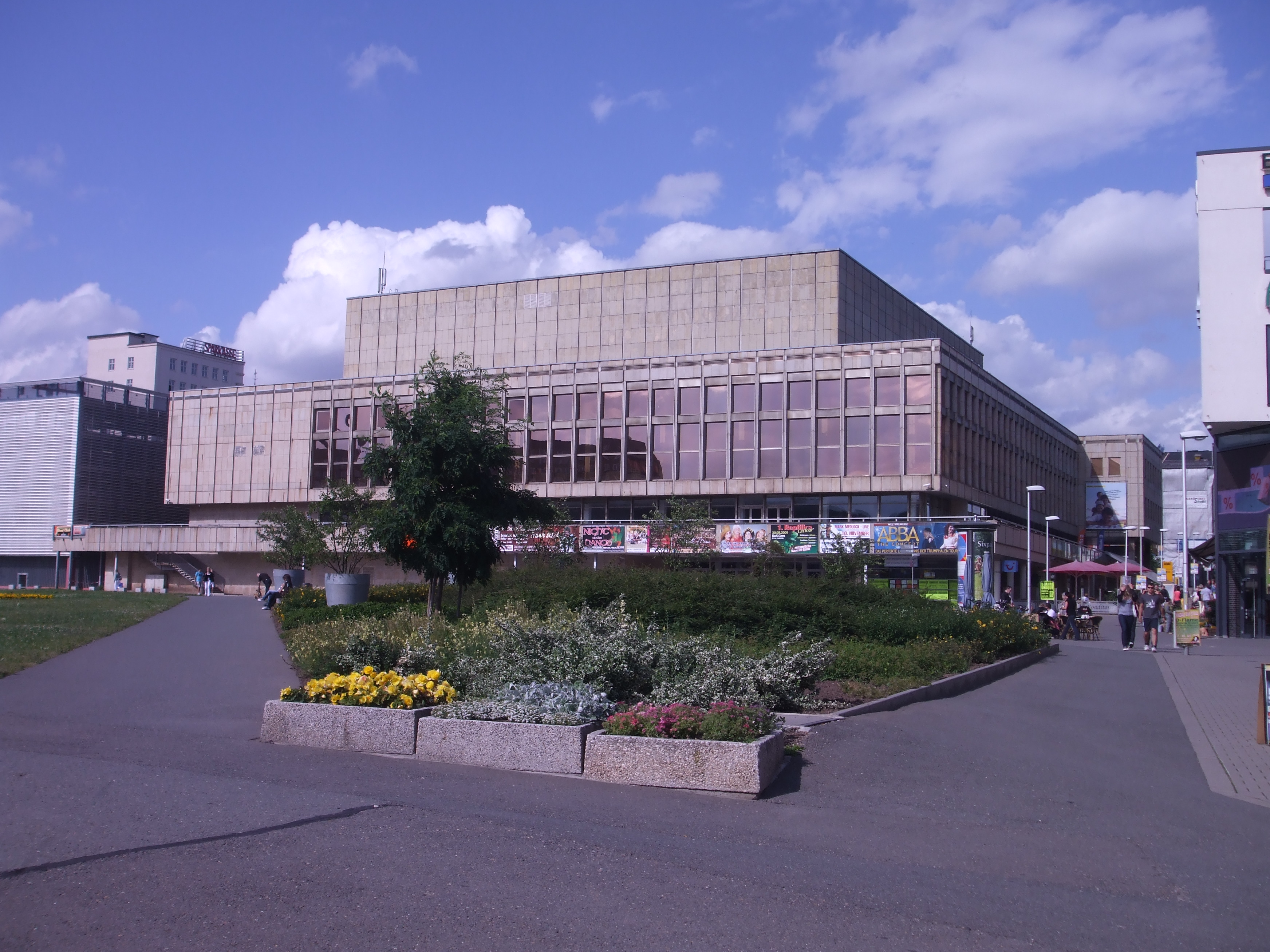 Culture and Congress Centre (Kultur- und Kongresszentrum; kuk) in Gera, Germany